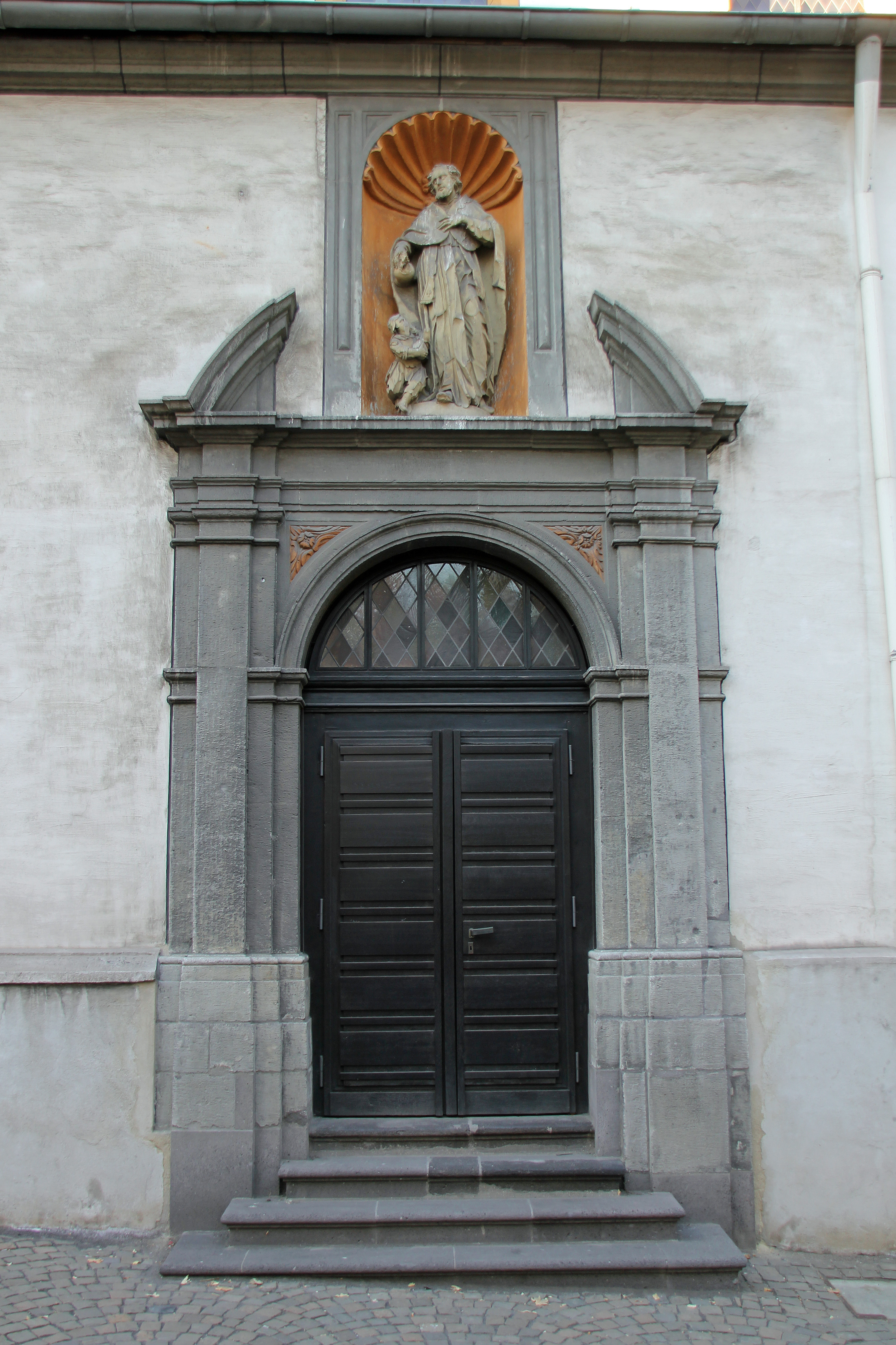 St. Florin Church in Koblenz